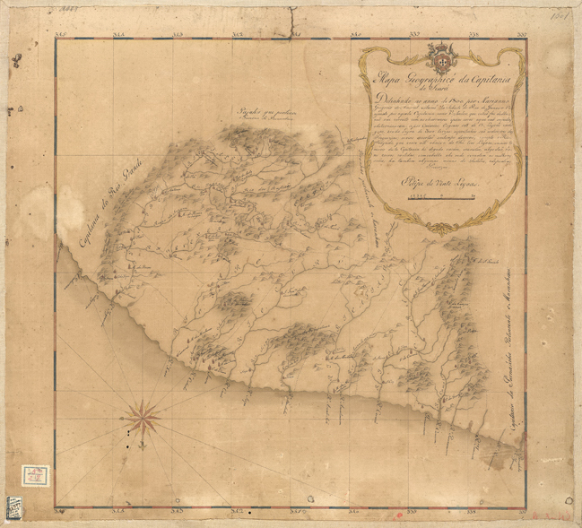 Ceará -1800